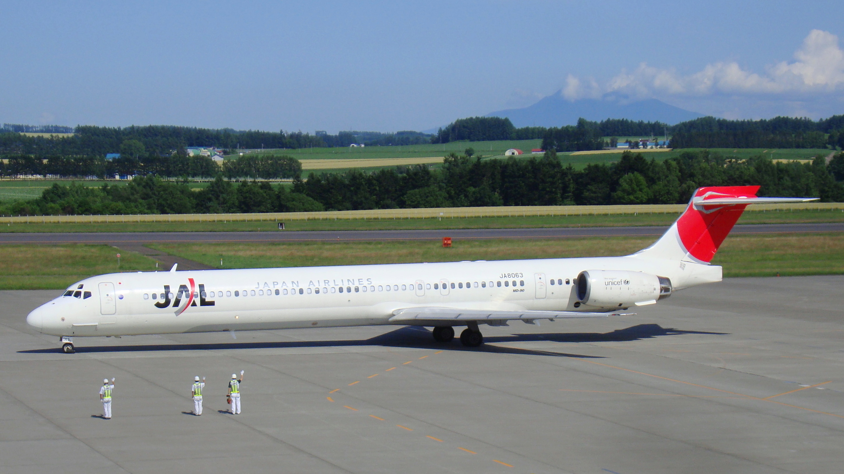 Japan Airlines McDonnell Douglas MD-90 JA8063